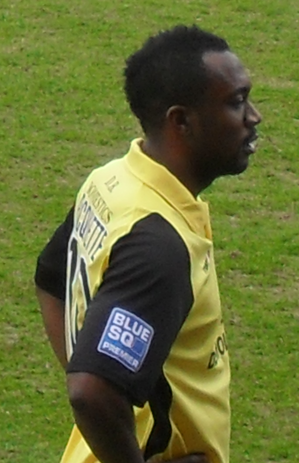 Richard Pacquette